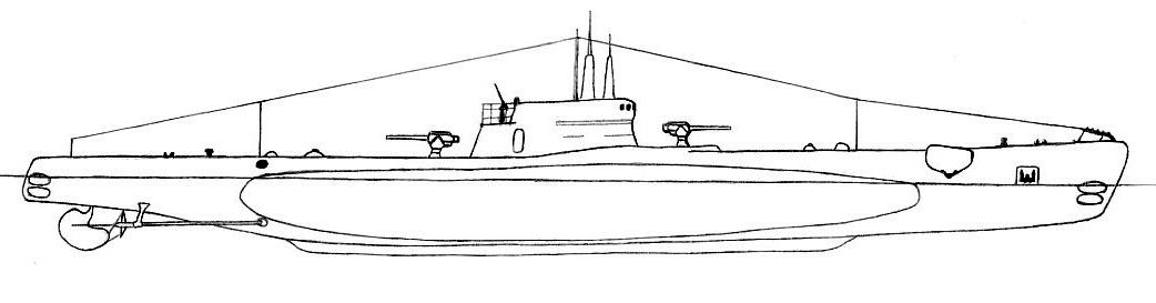 Italian submarine type Archimed of WWII. Scanned drawing.